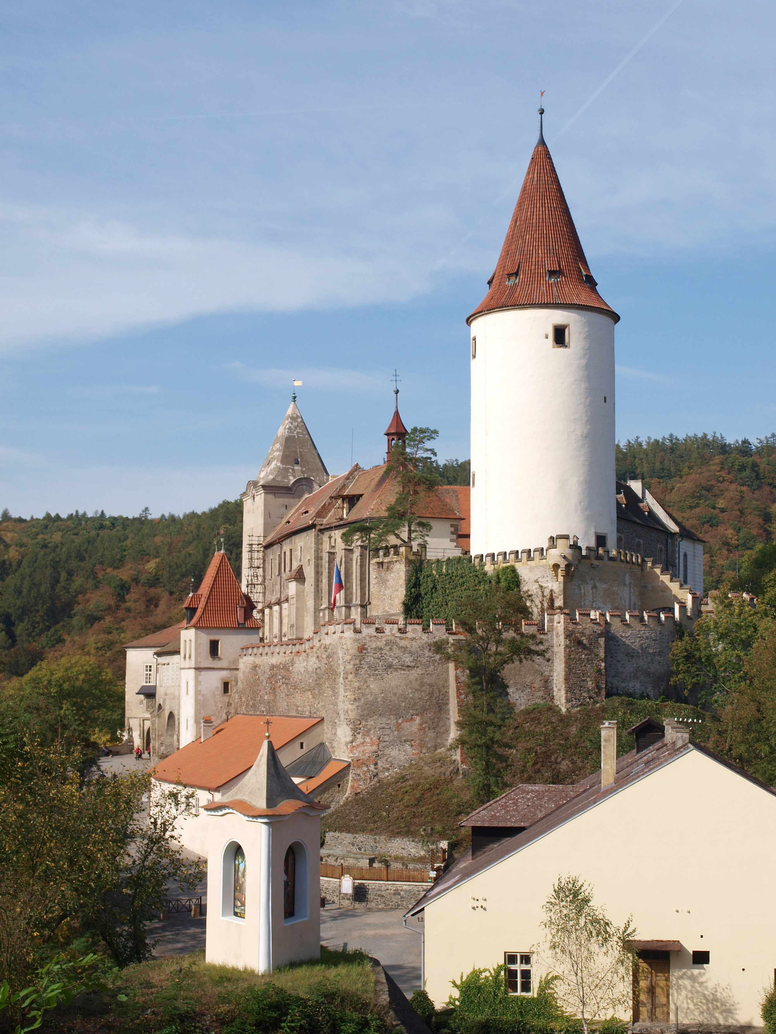 Křivoklát Castle from East, village Křivoklát, Rakovník District, Central Bohemian Region, Czech Republic